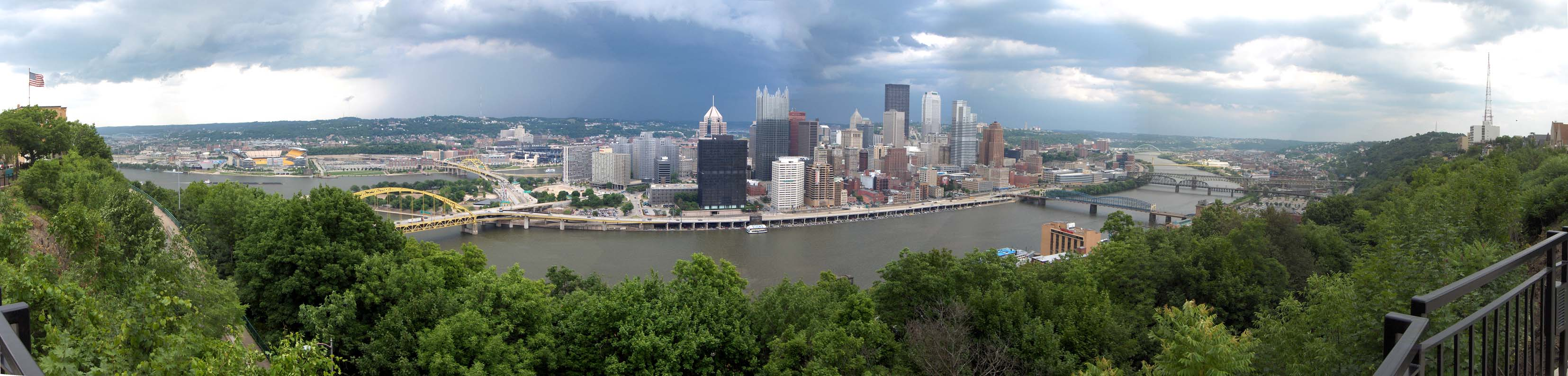 190 Degree Panorama of Downtown Pittsburgh, PA taken from the Mt. Washington Overlook at Grandview Ave & Bertha St. Reduced quality version (9 times fewer pixels and higher JPEG compression).